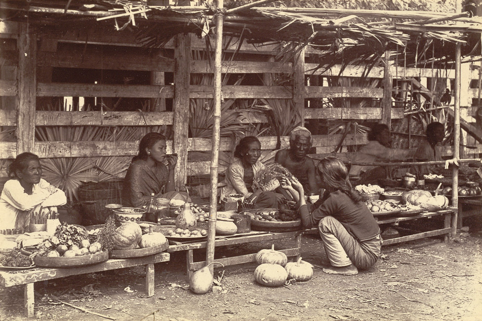 Vegetable stand outside the Madras Lancer Lines, Mandalay, Burma.